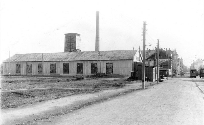 Depot of Kristiania Elektriske Sporvei